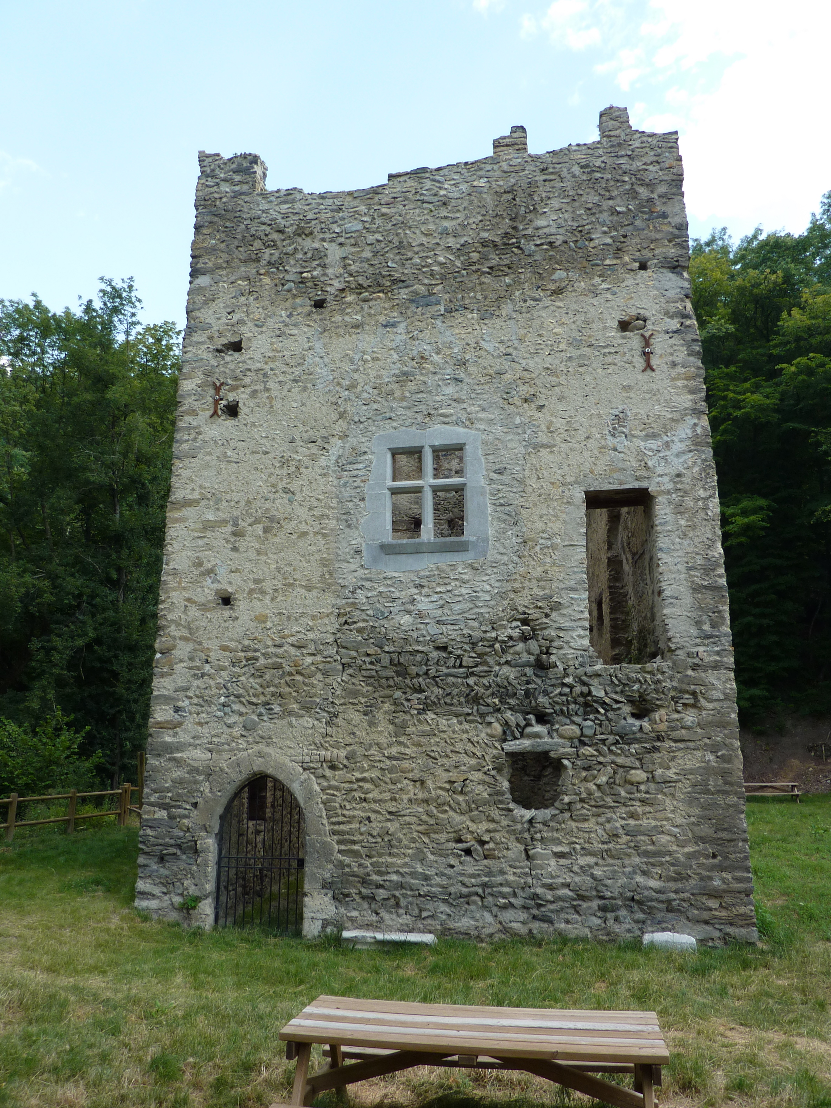 North side of the Tour d'Etapes, Le Versoud, Isère, France